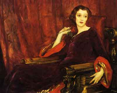 Photograph of "The Red Rose", 1923. Oil on canvas, by John Lavery. In the public domain. Crawford Art Gallery, London. Painting copyright not renewed in US, in 1950 or 1951 thus public domain in US: [1].